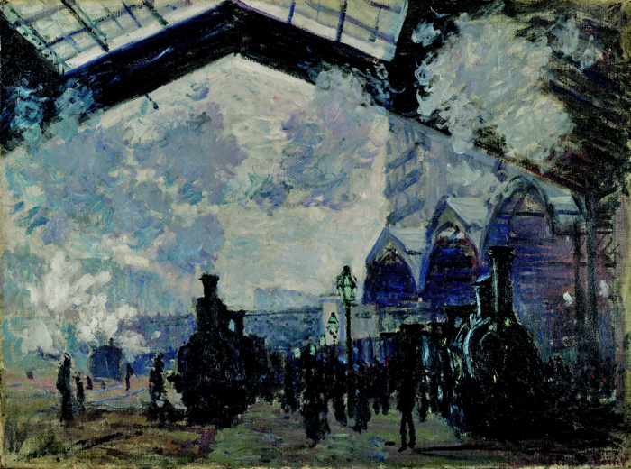 La Gare Saint Lazare, National Galery